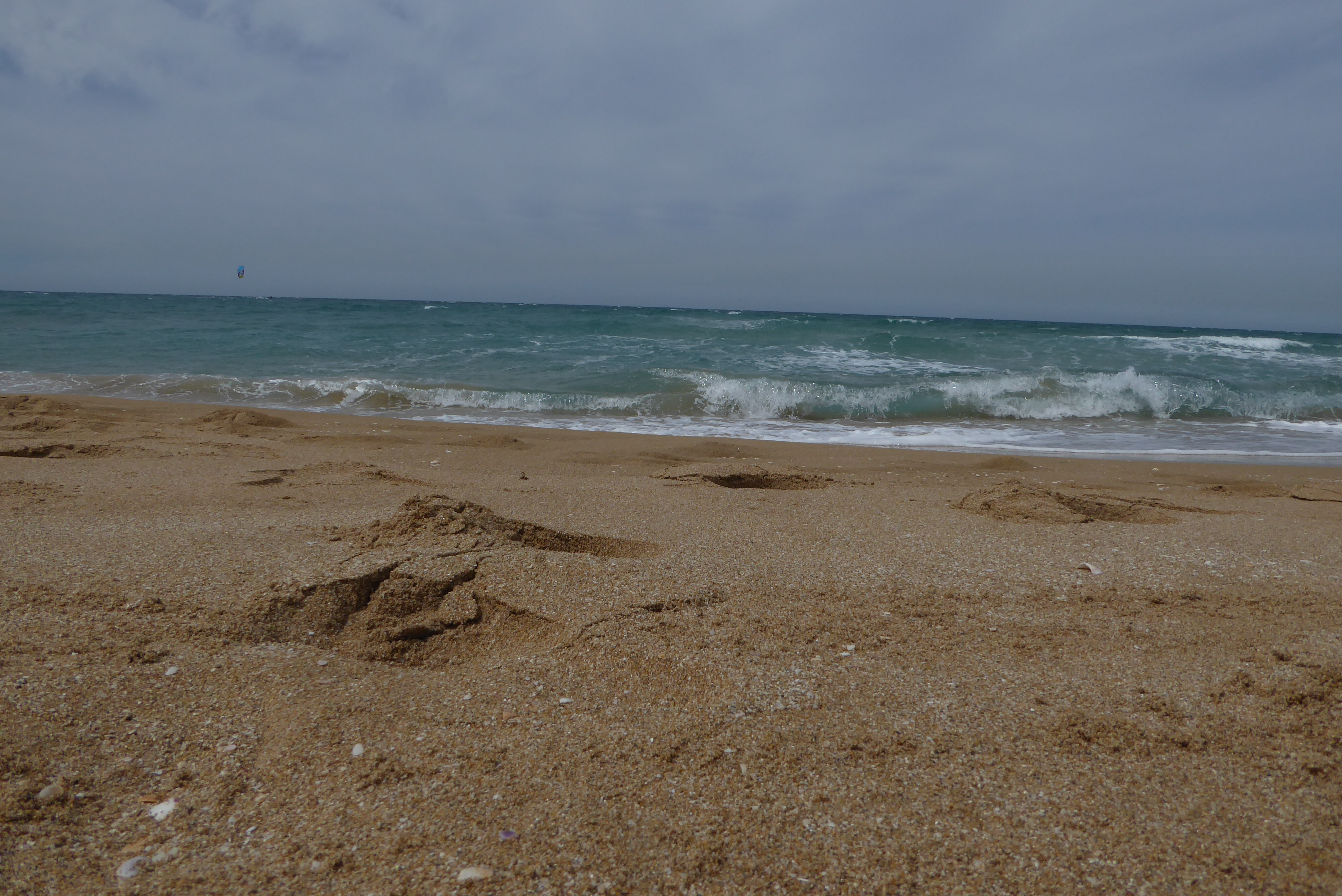 Beaches of Israel